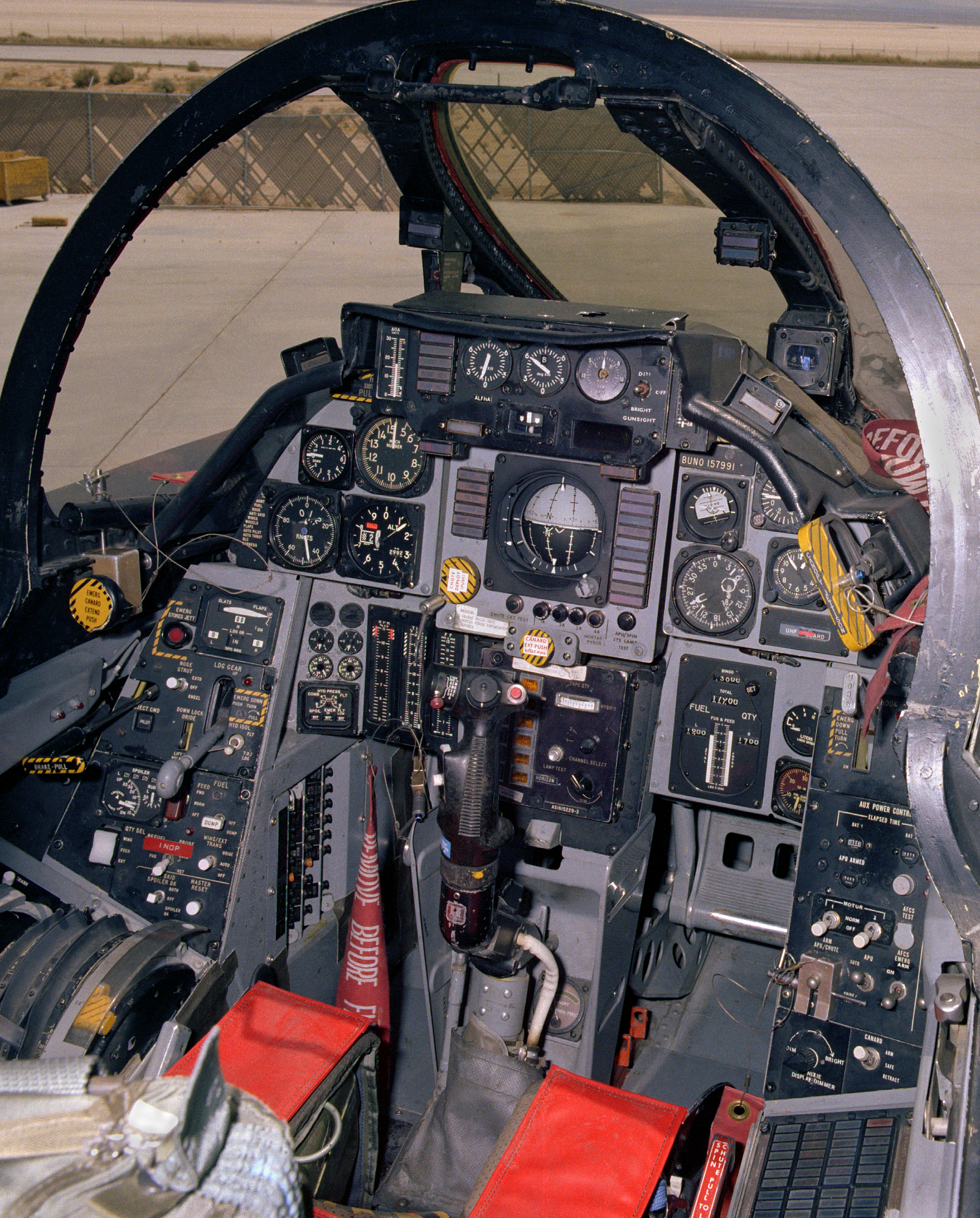 2 July 1980 Photo of the cockpit of a NASA F-14 Tomcat tail number 991.